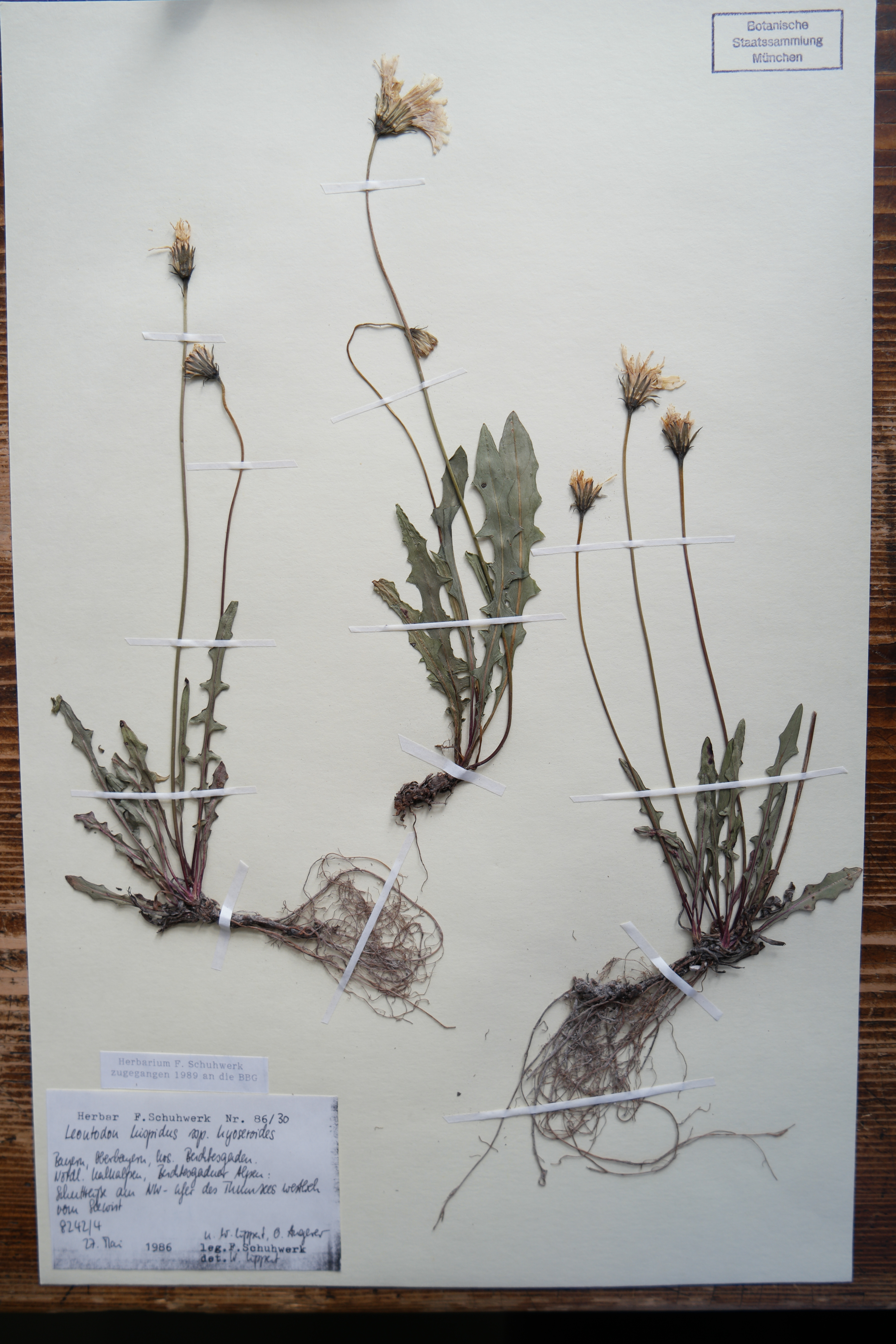 Leontodon hispidus ssp. hyoseroides leg. Franz Schuhwerk Botanische Staatssammlung München